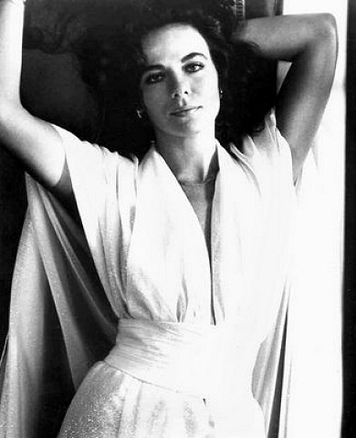 A scene portrait of the actress Marilu Tolo.